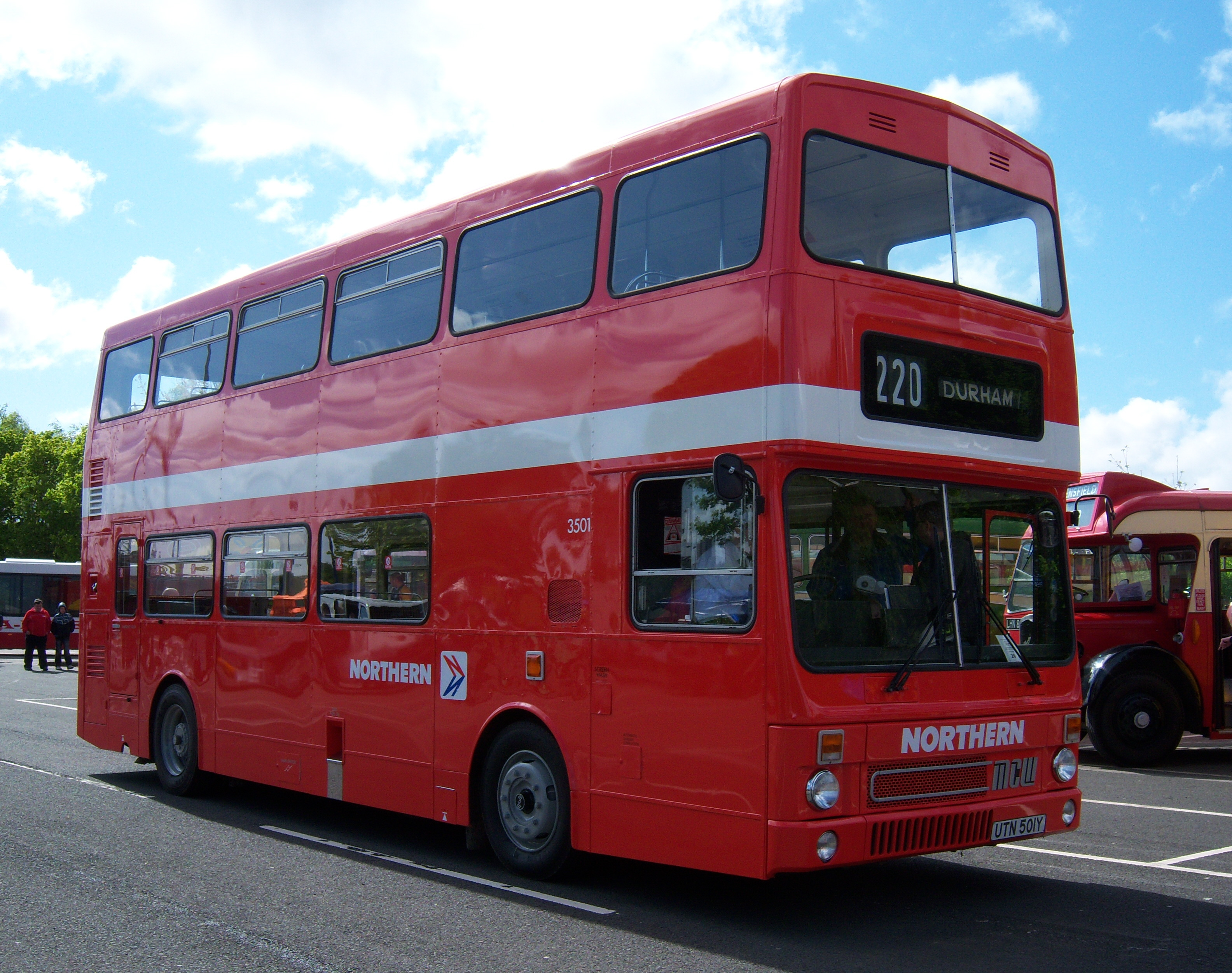 Preserved National Bus Company Northern 3501 (UTN 501Y), a MCW Metrobus MkII, seen on display at the 2009 Metrocentre bus rally.